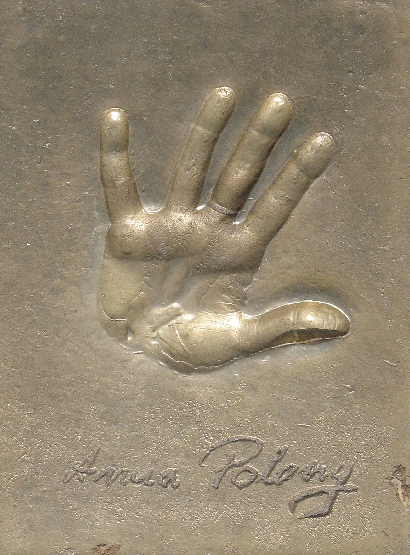 Anna Polony - handprint and signature in Międzyzdroje